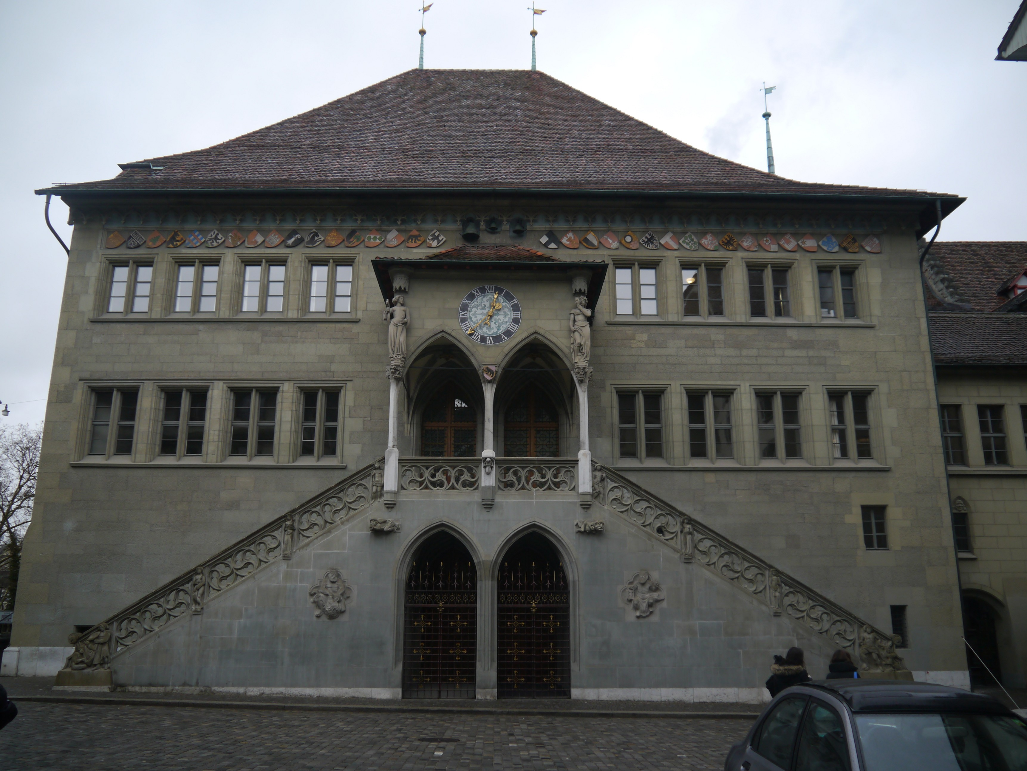 City hall, Bern, Canton of Bern, Western Switzerland